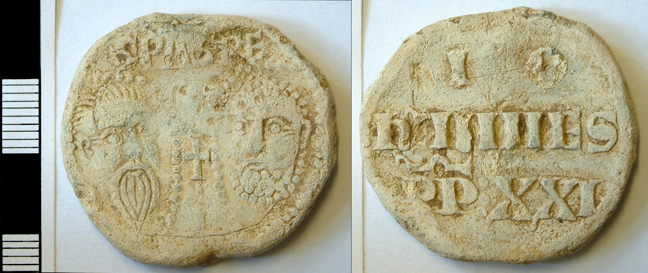 A cast lead Papal bulla. The obverse depicts the heads of St. Paul and St. Peter), with a cross between them. The two heads are each surrounded by a circle of pellets. The legend above the busts reads SPASPE. The reverse depicts the name of the Pope. The legend reads IO // h'INNES // PP: XXI (written on three lines, as indicated). This name refers to John XXI (1276 - 1277). The lead has gone a mid whitish-grey colour. The ribbon holes have been filled with lead corrosion and soil, so are no longer visible as holes. Papal bullae are lead seals which were attached to documents known as bulls, issued by the Papacy.